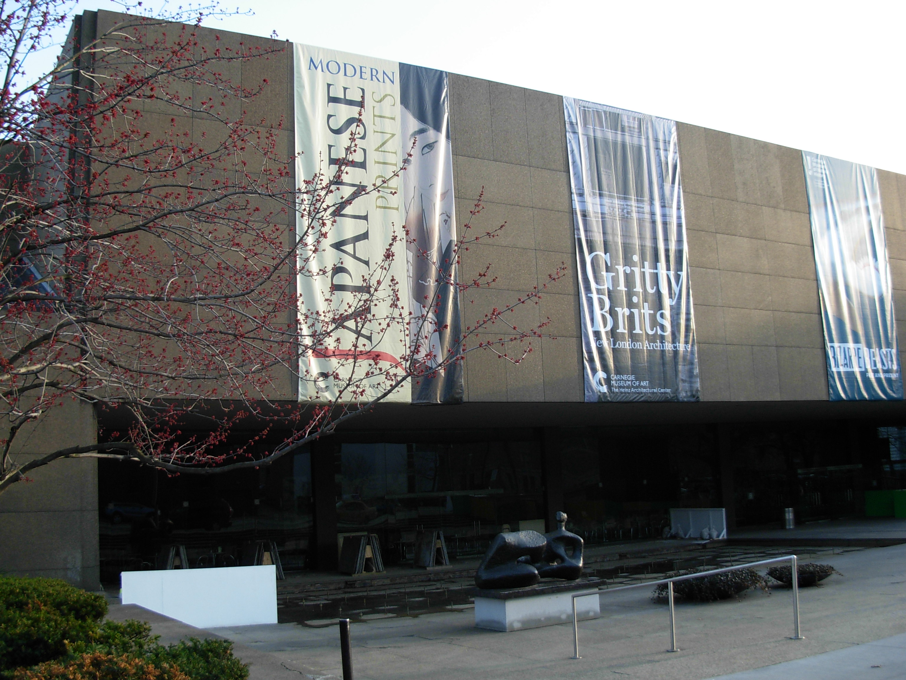 Carnegie Museum of Art, Pittsburgh, Pennsylvania, USA. Architect Edward Larrabee Barnes.